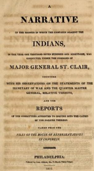 A narrative of the manner in which the campaign against the Indians, in the year one thousand seven hundred and ninety-one, was conducted, under the command of Major General St. Clair